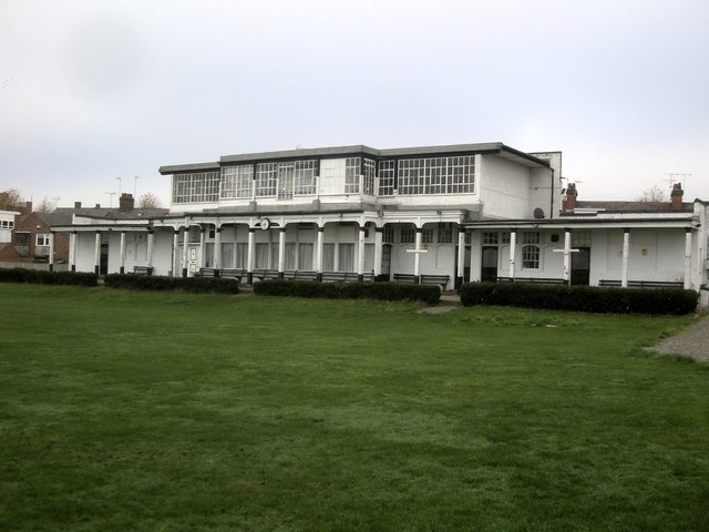 Leicester Electricity Sports Cricket Ground